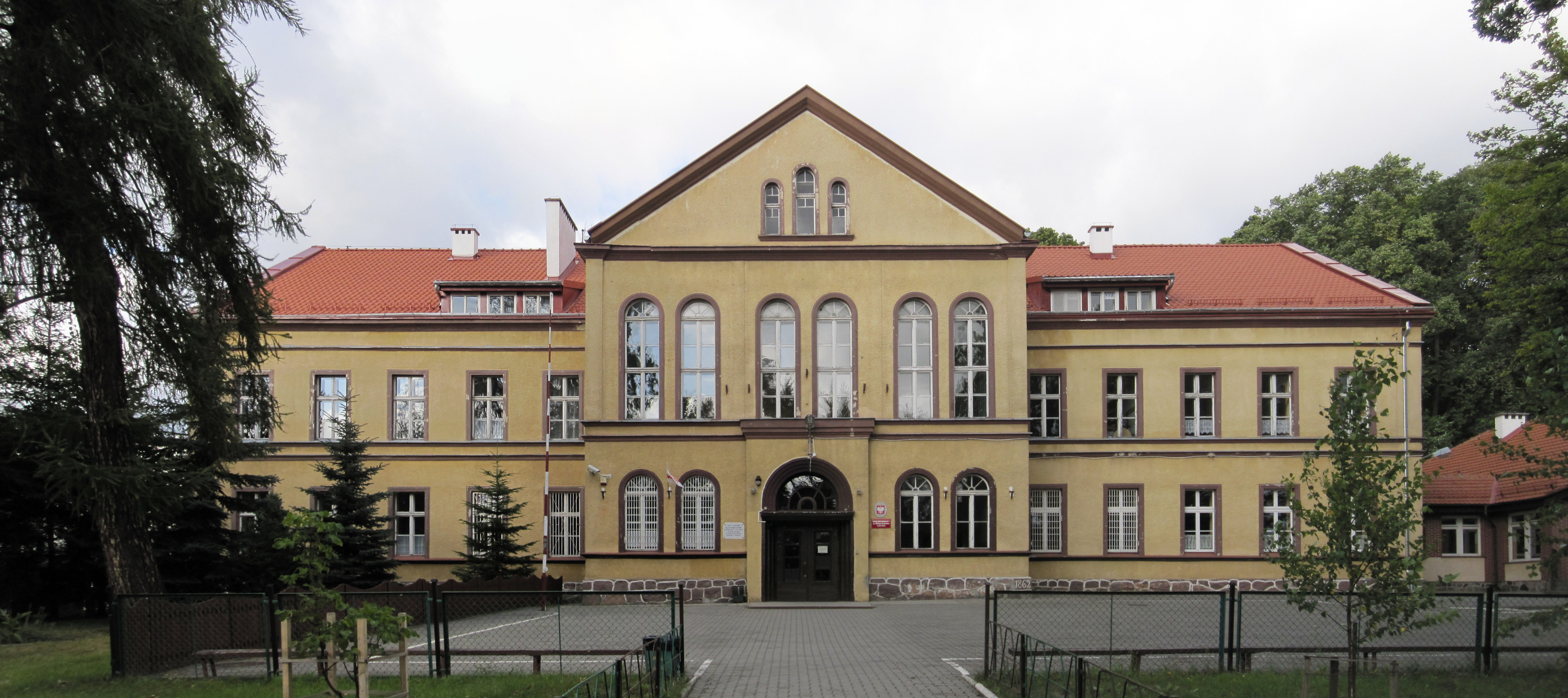 Primary schools No 2 in Ostróda